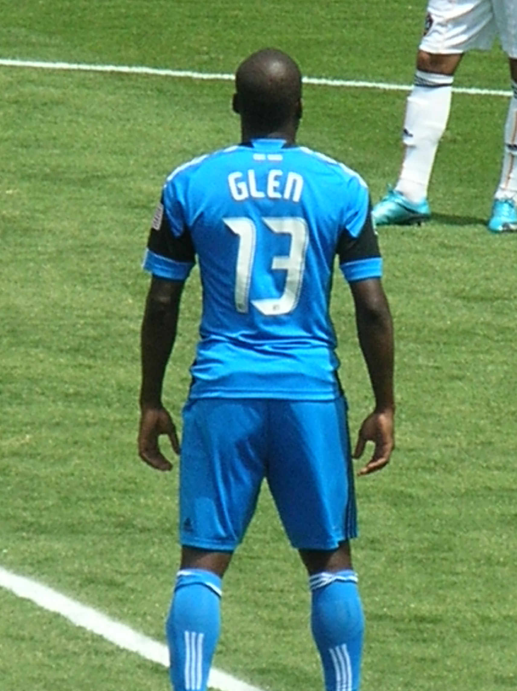 San Jose Earthquakes forward Cornell Glen at a home game against the LA Galaxy. The Earthquakes won 1-0